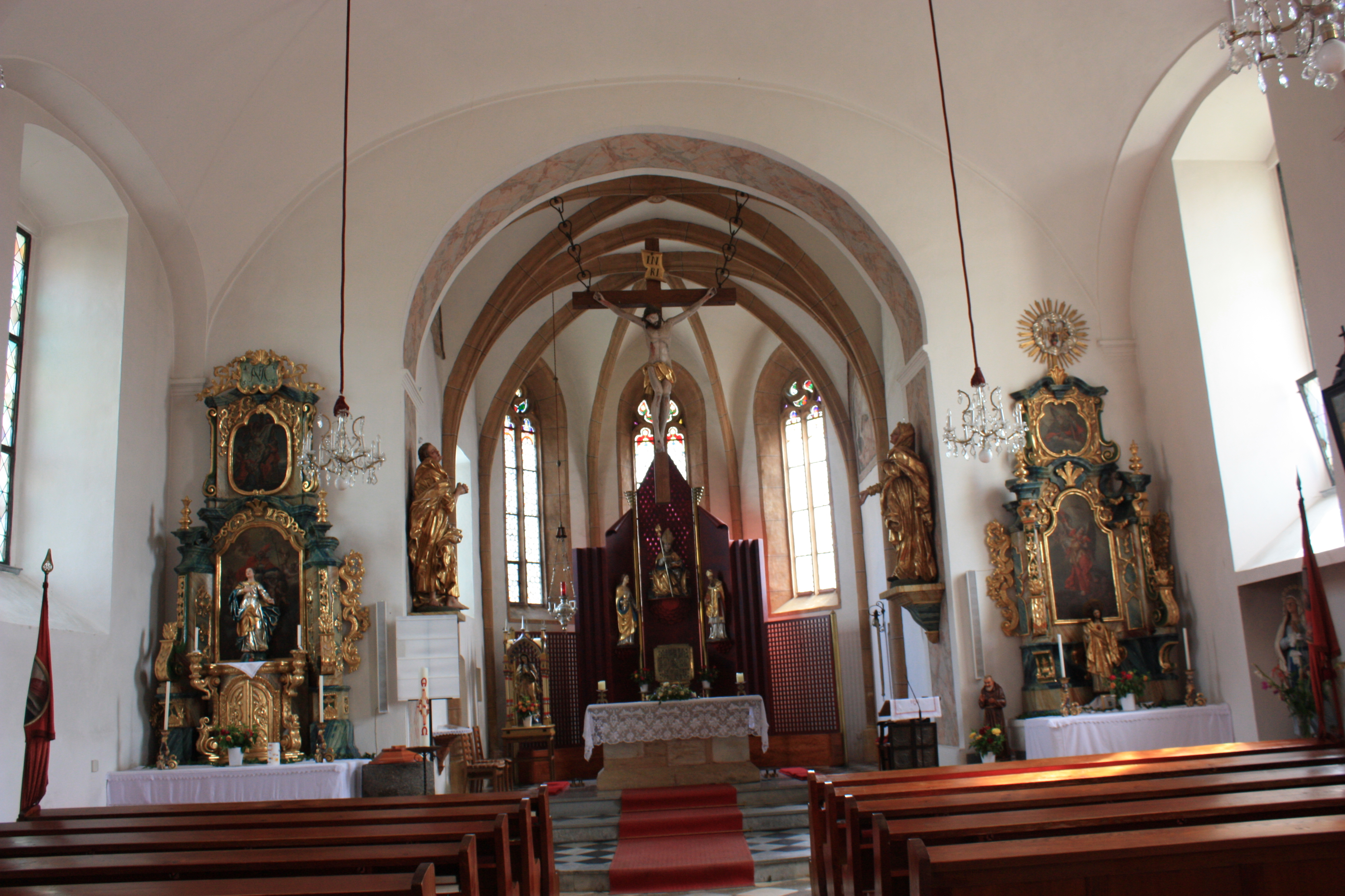 Parish church "Saint Ulrich" - Interior Locality: St Ulrich an der Goding Community:Sankt Andrä